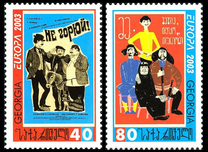 Postage stamps of Georgia, 2003 The issue of the program EUROPA. Posters